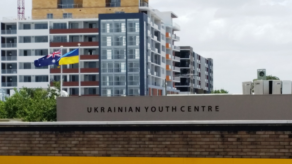 Ukrainian Youth Centre, top, Sydney, 2016